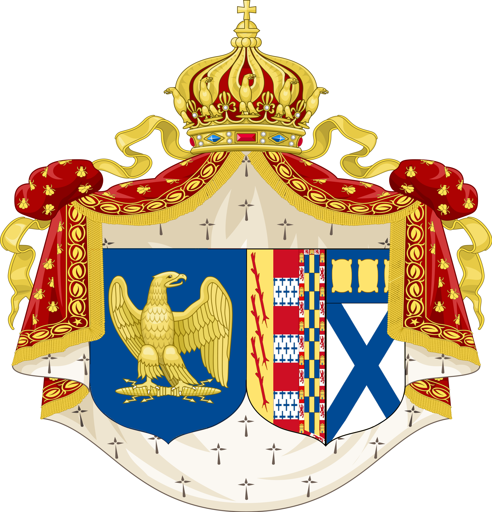 To improve if necessary.